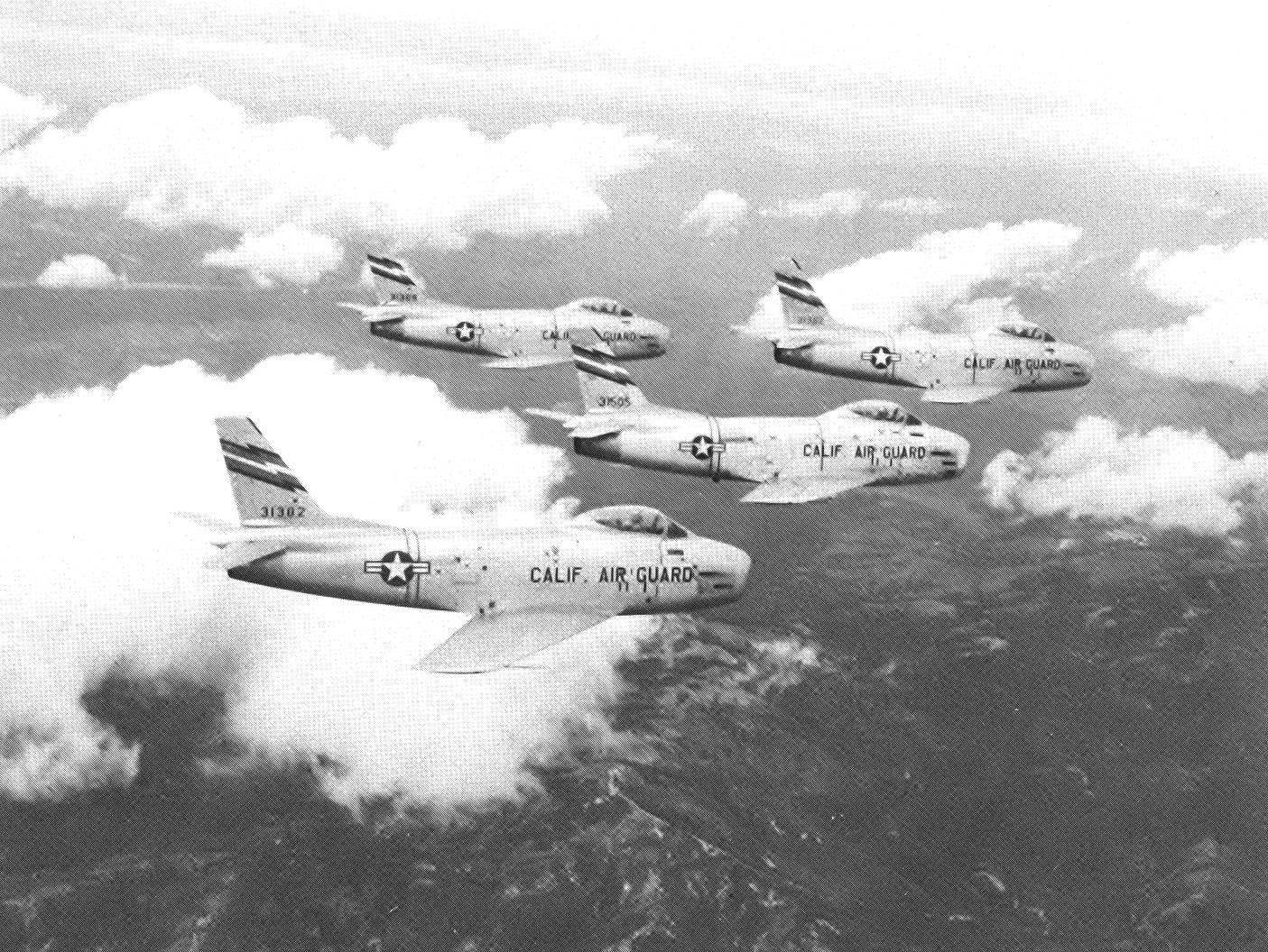 195th Fighter-Interceptor Squadron California Air National Guard 4-ship F-86H about 1960. North American F-86H-10-NH Sabre 53-1382 in foreground 53-1505 also identifiable